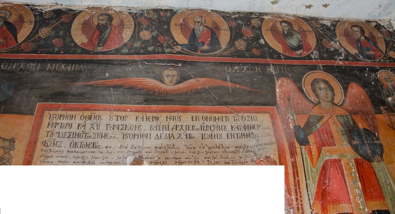 Saint Petka Church in Skochivir Fresco 01